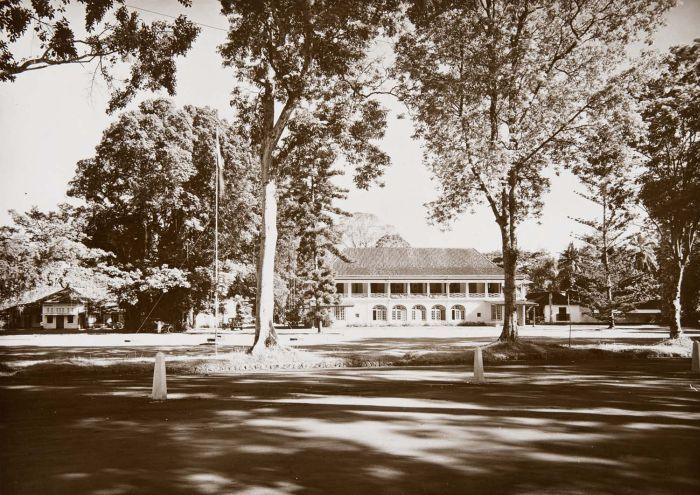 The house of the Resident at Buitenzorg